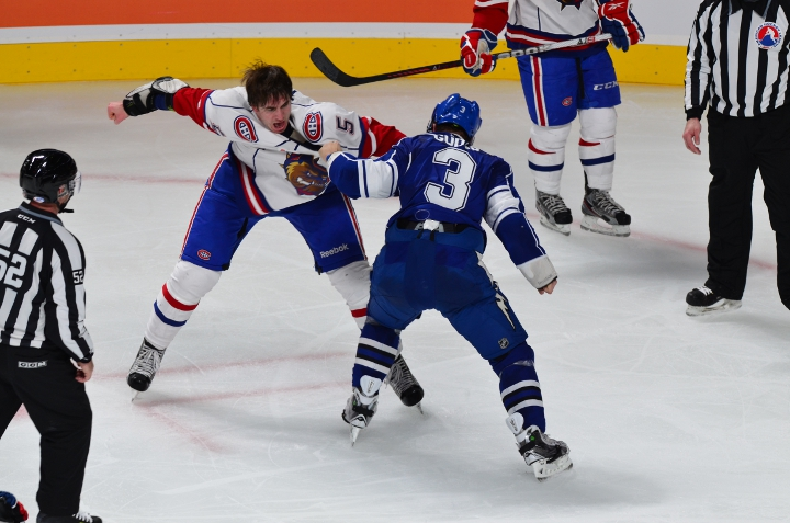 Jarred Tinordi vs. Radko Gudas, in a game between the Hamilton Bulldogs and the Syracuse Crunch at the Bell Centre of Montreal.